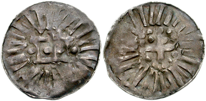 GERMANY, Saxony. Circa 985-1000. AR Pfenning (21mm, 1.50 g). Crude representation of church; four pellets among columns / Cross with pellets around. Gumowski 37 var; Dannenberg 1325 var. VF, toned, a few peck marks. Derived from the Carolingian CHRISTINA RELIGIO denier. Unrecorded variety with four pellets.